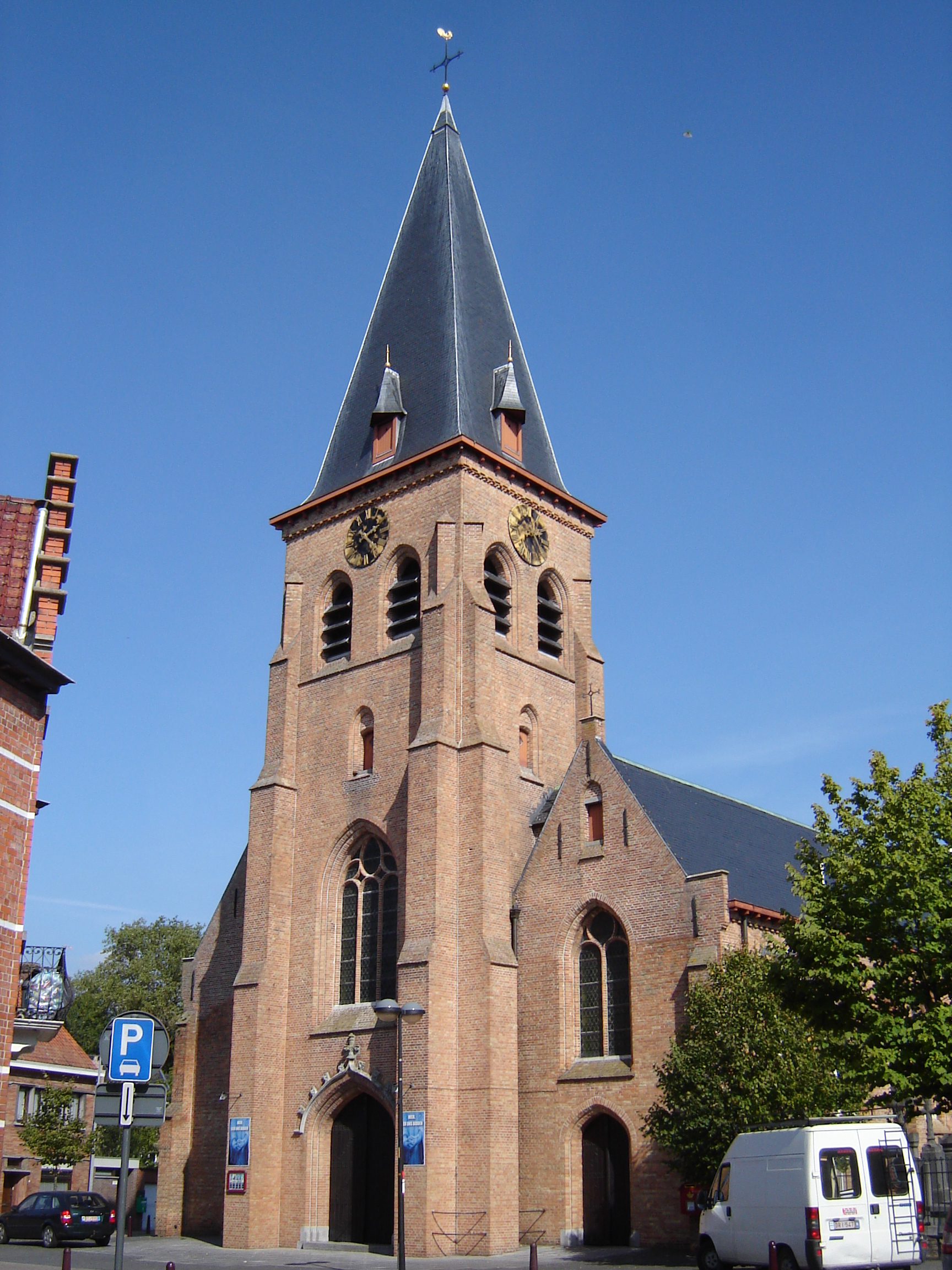 Church of Saint Amand in Beernem. Beernem, West Flanders, Belgium